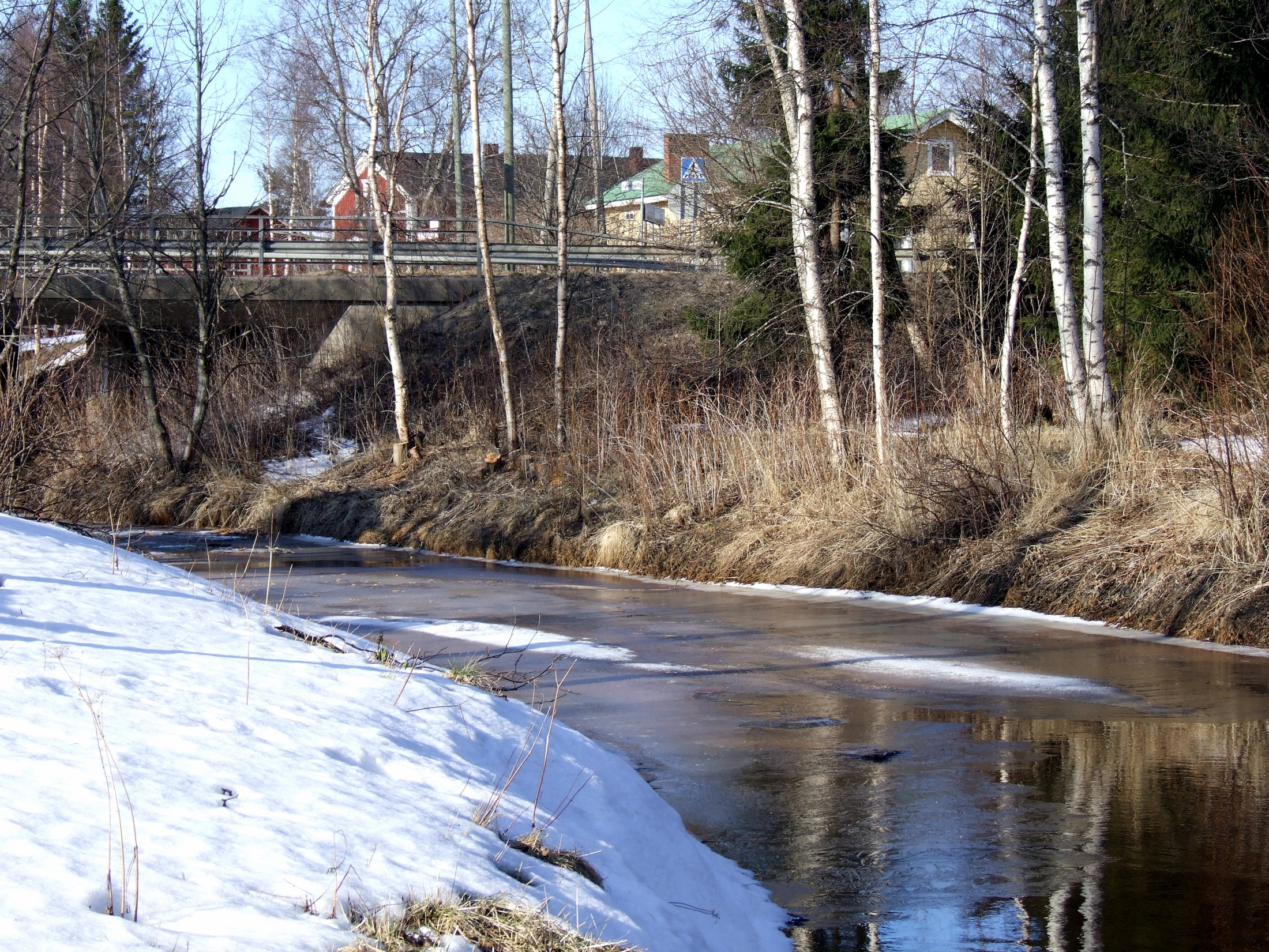 The road bridge of regional road 813 over Lumijoki river near Lumijoki parish village.